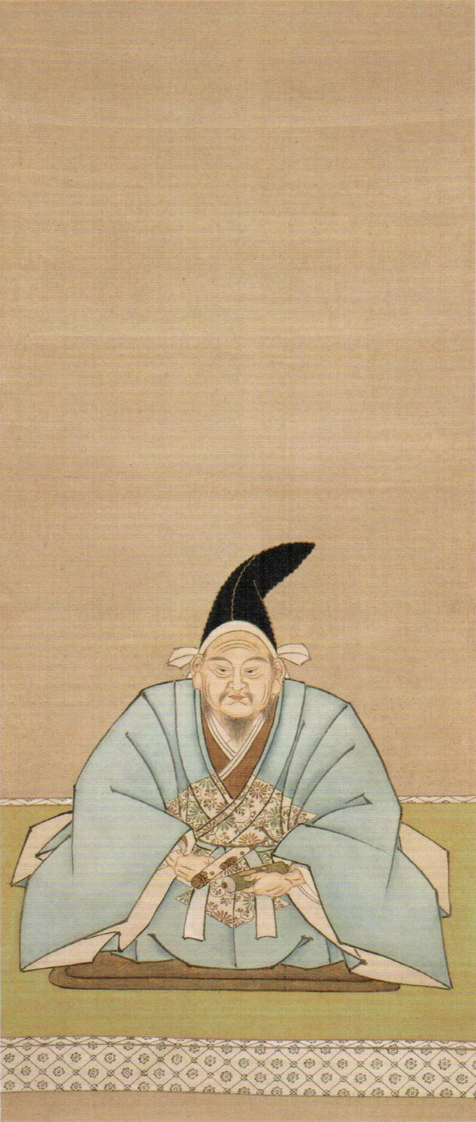 "Portrait of Ōe no Hiromoto", painted in Meiji period, a collection of Mōri Museum.